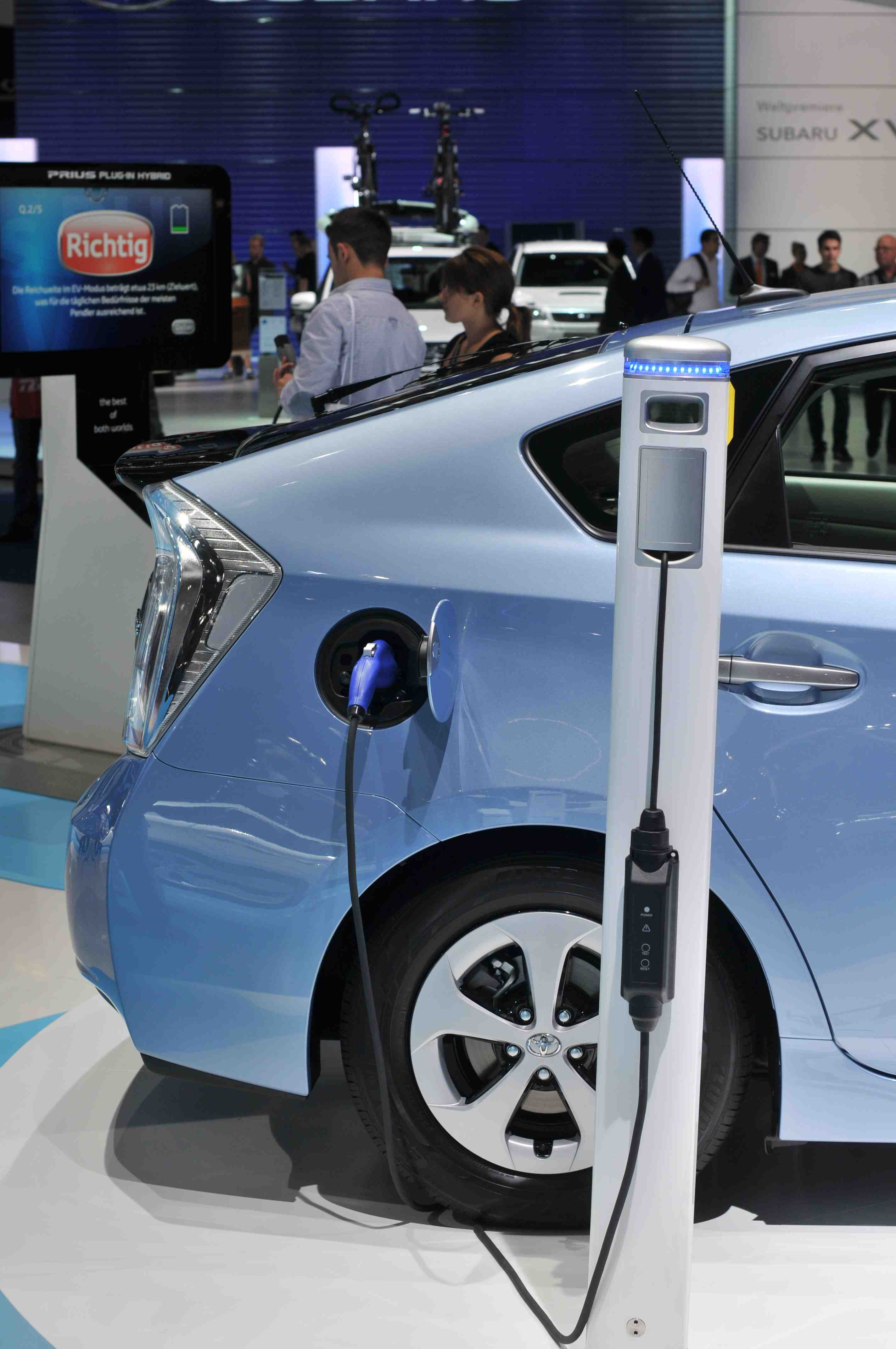 Production Prius Plug-in Hybrid unveiled at the 2011 Frankfurt Motor Show